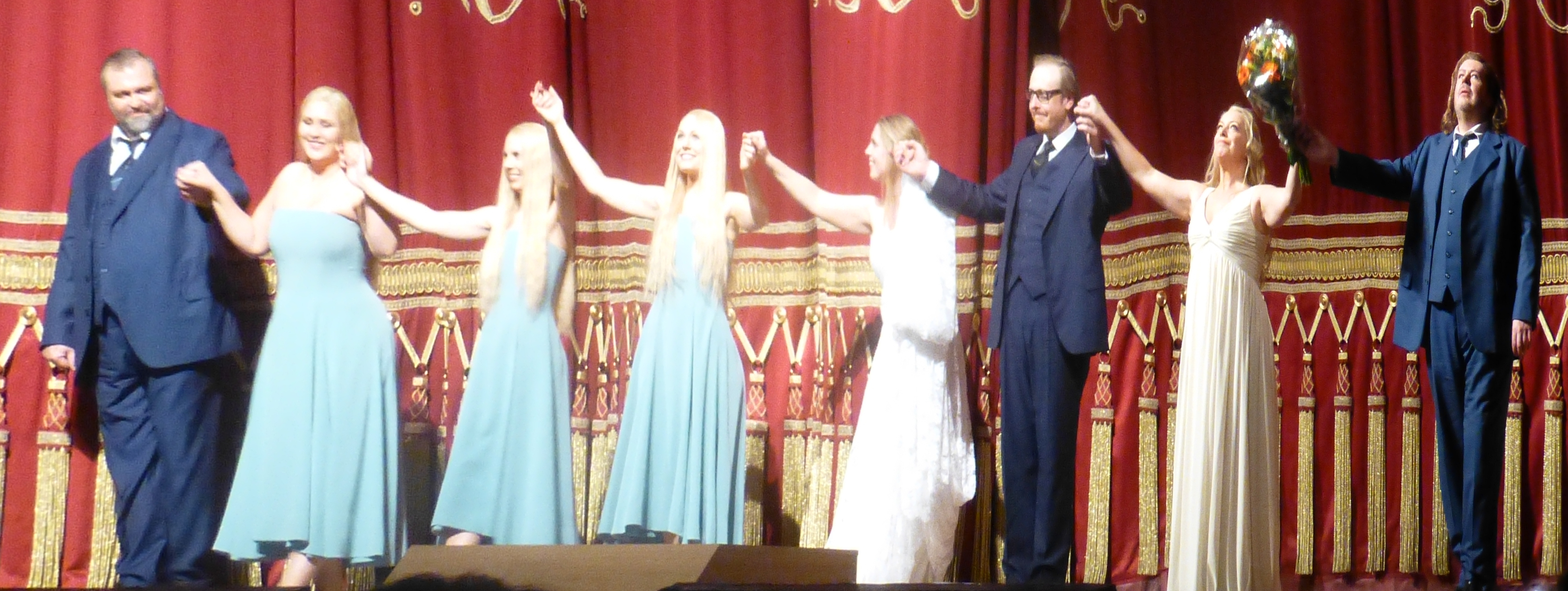 Closing bows following Wagner's opera Götterdämmerung at the Bavarian State Opera. Left to right: Gunther, the 3 Rhinemaidens, Gutrune, Hagen, Brünnhilde, Siegfried